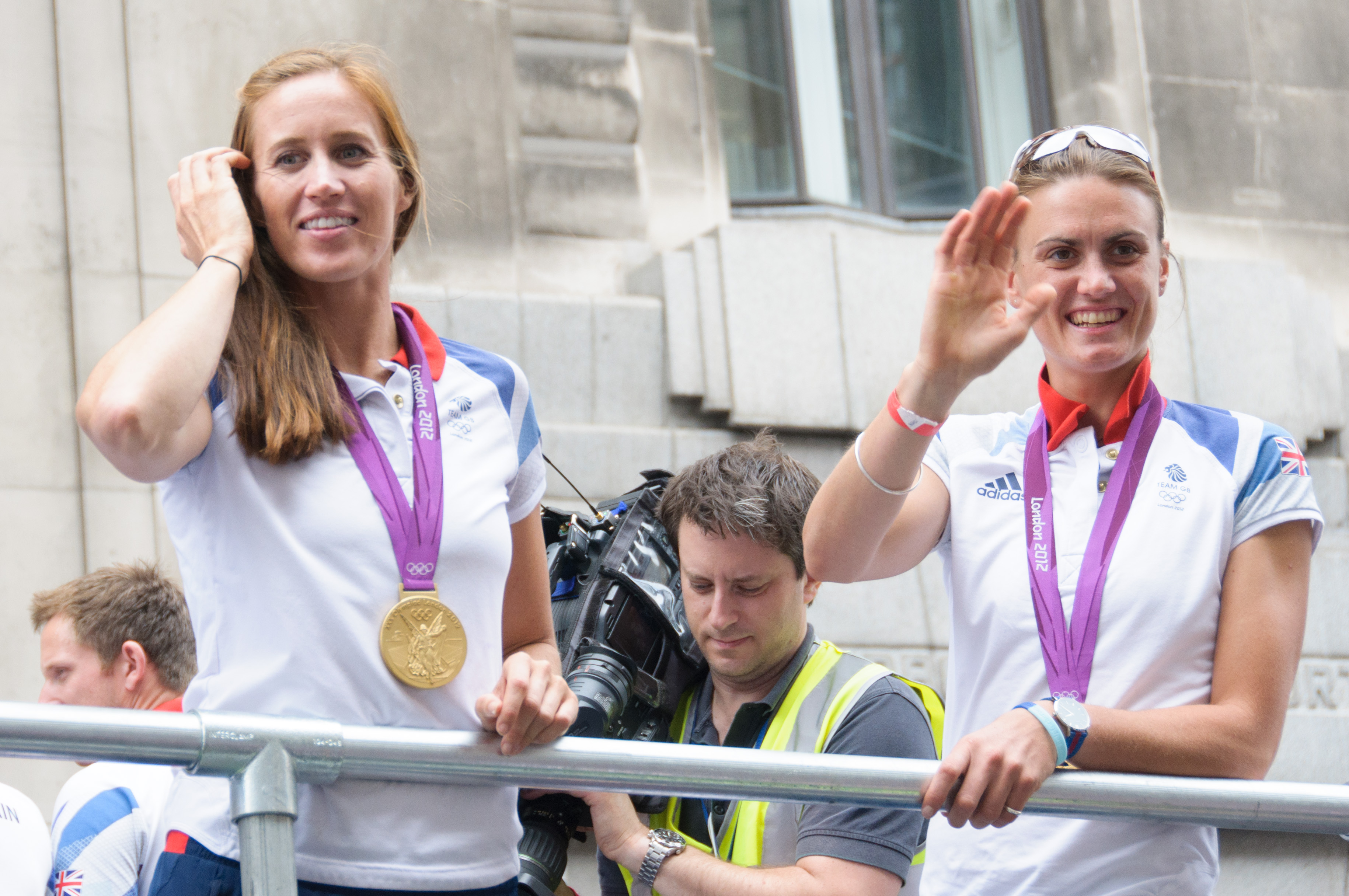 Helen Glover and Heather Stanning